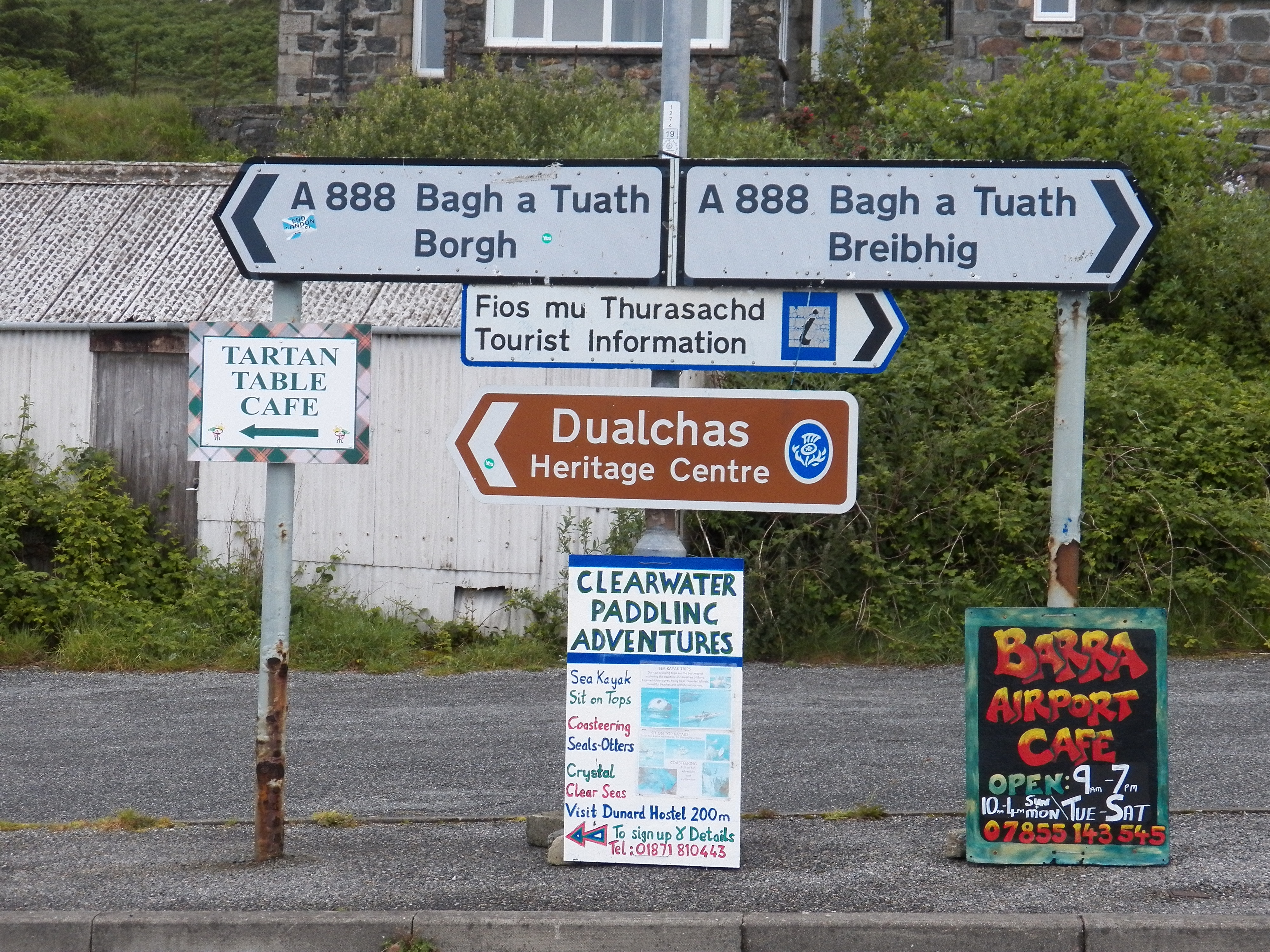 Signs on the circular A888